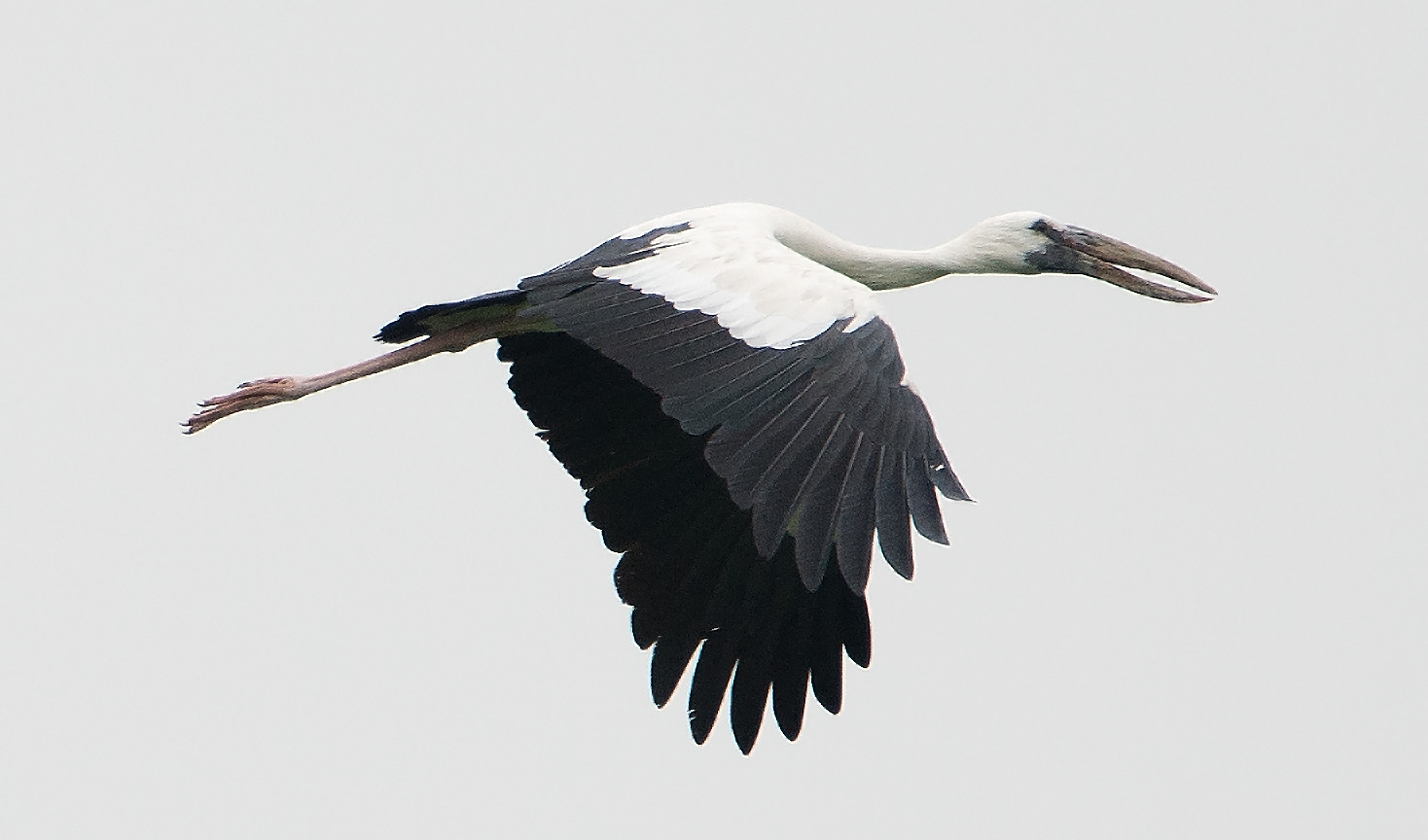 A Asian Openbill flying at Keoladeo National Park, Rajasthan, India.